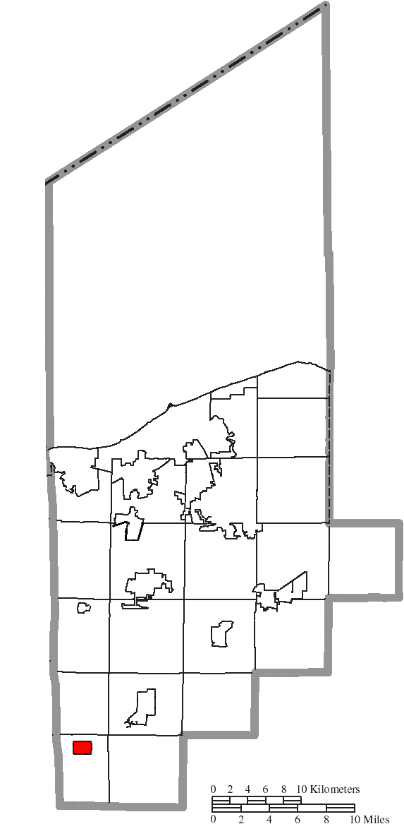 Map of the municipal and township boundaries of Lorain County, Ohio, United States, as of the 2000 census, with the location of the village of Rochester highlighted. Township borders are shown only in unincorporated areas in order to differentiate incorporated and unincorporated areas more clearly.